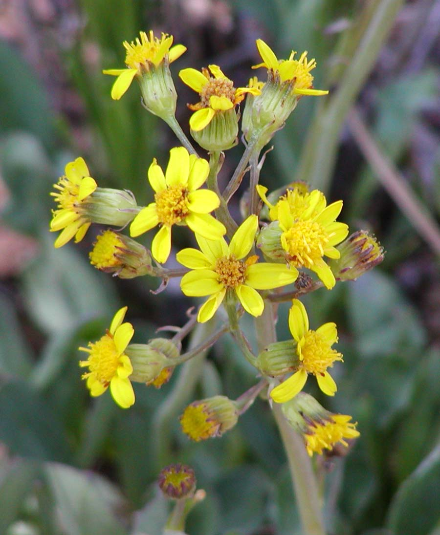 Different photo of Senecio wootonii flowers at Flagstaff arboretum